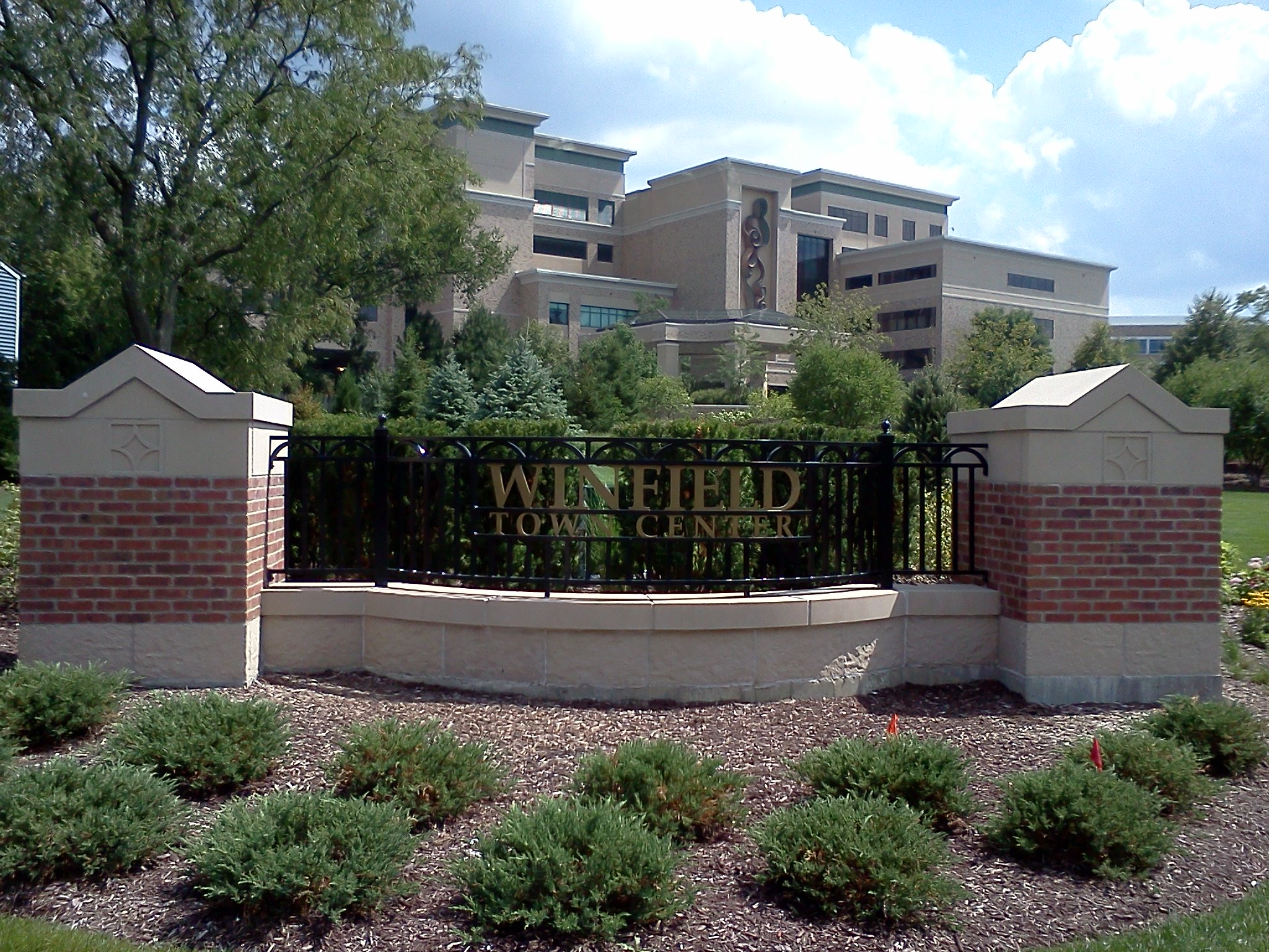 View of Winfield's Central Dupage Hospital as you drive in from the North.